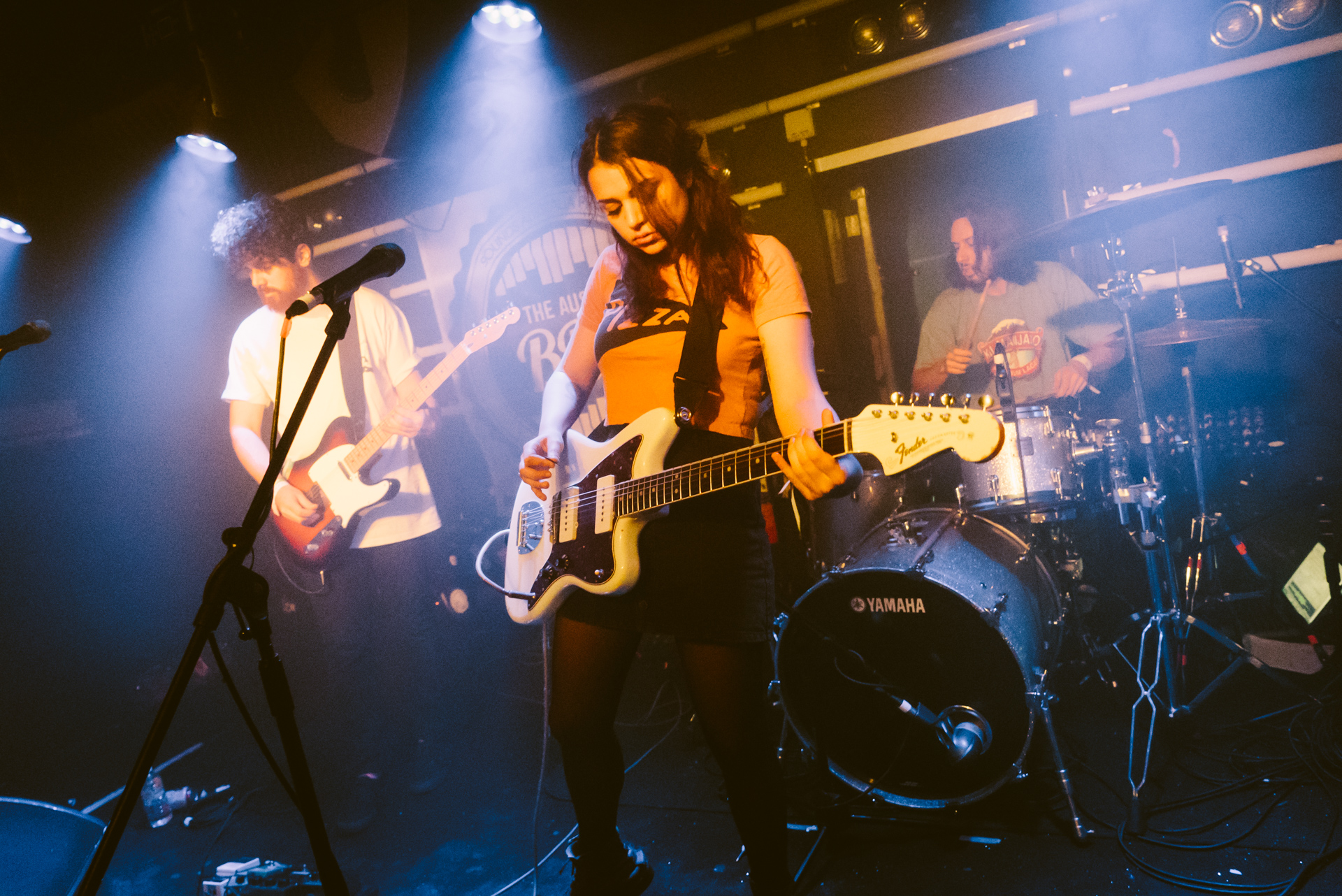 Three members of Tired Lion performing at The Great Escape 2017